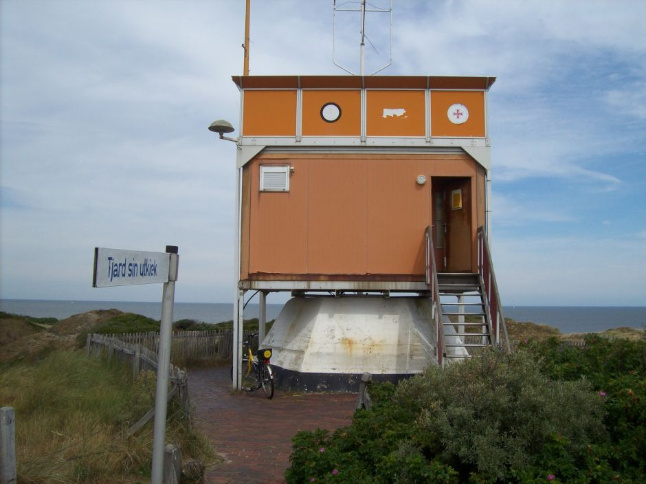 Langeoog, Germany - Island in the North Sea